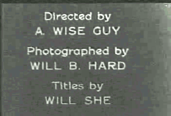 A still from A Free Ride (1915)